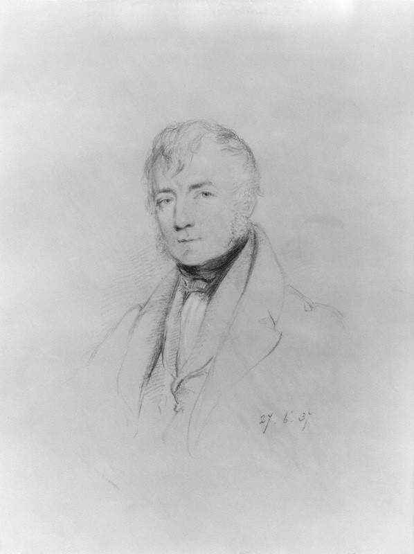 Chalk drawing of Thomas Frederick Colby (1784–1852), British Army officer and surveyor.